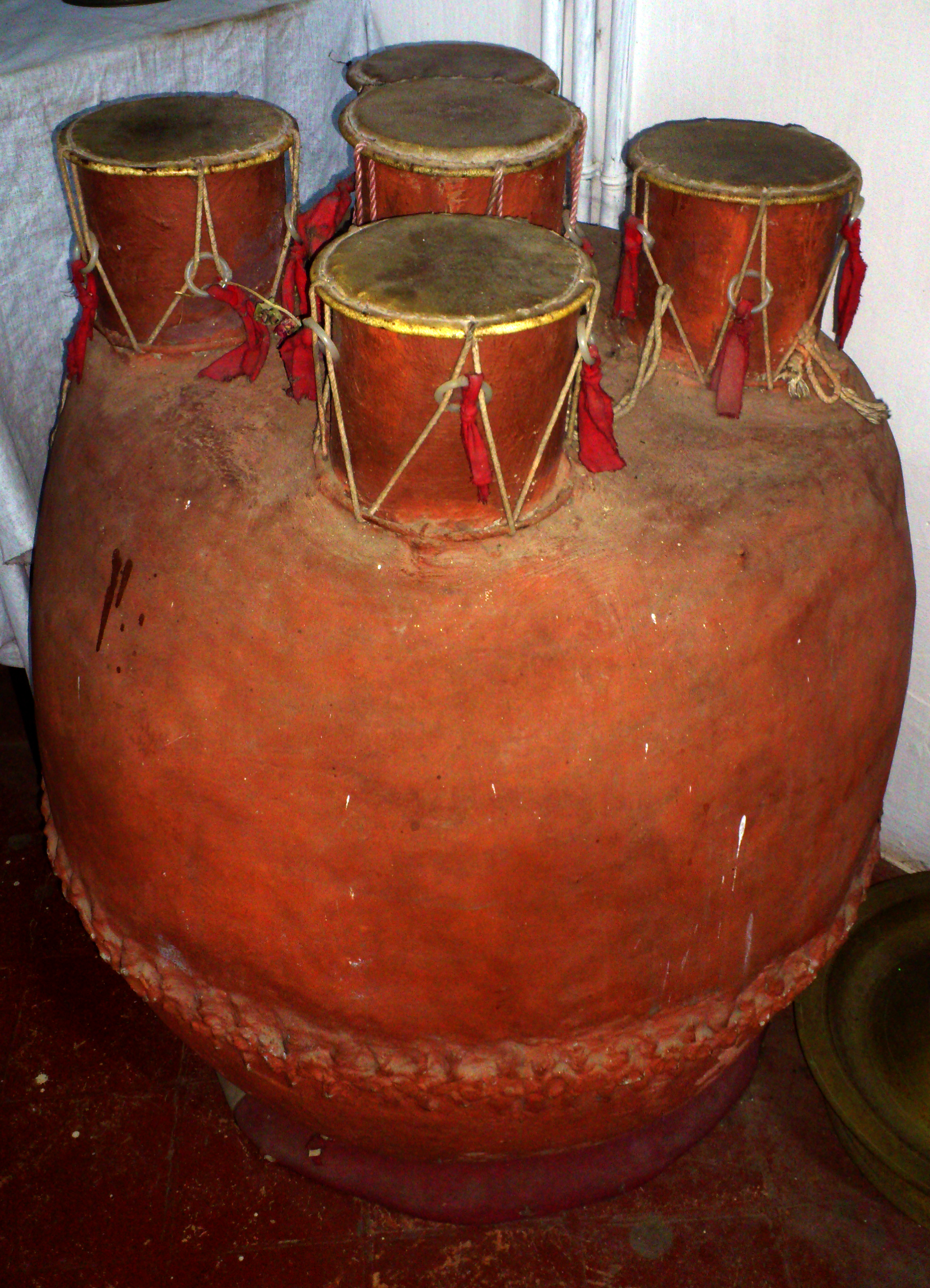 Five Faced mizhav